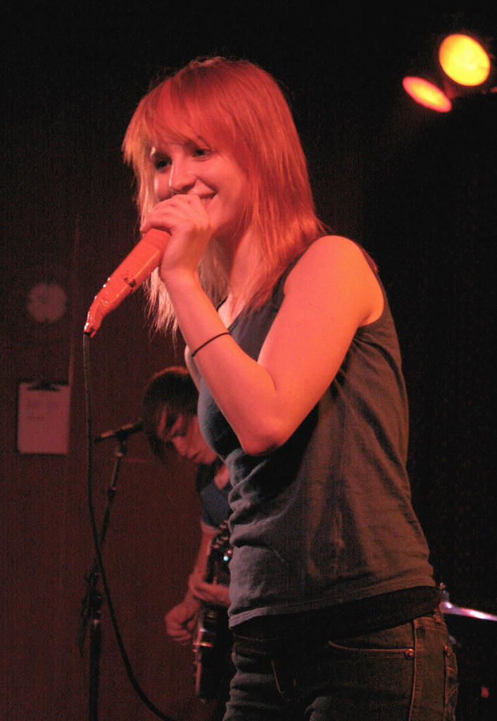 Paramore at The Social, Orlando, Florida on April, 23 2007.